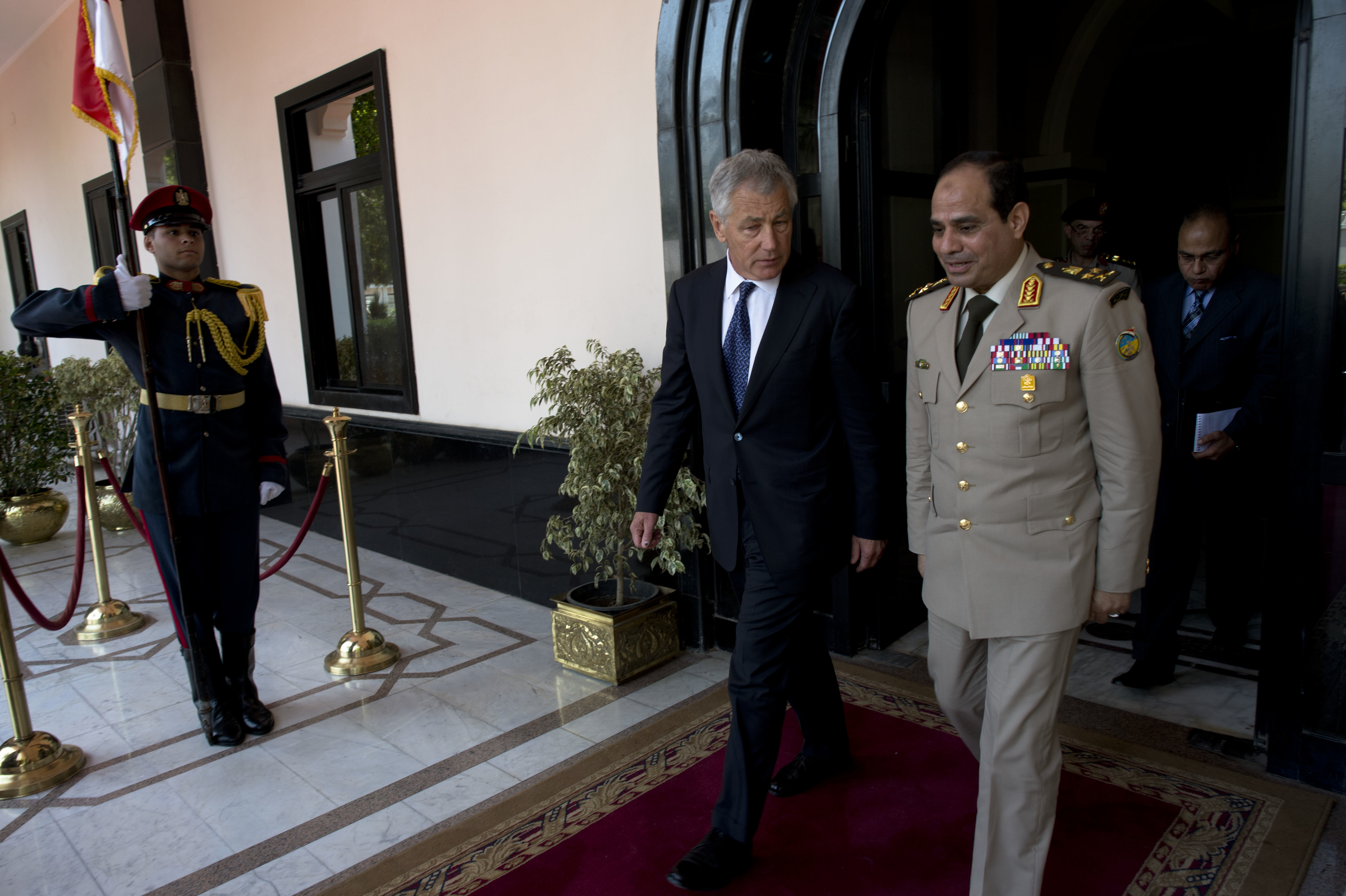 Secretary of Defense Chuck Hagel, left, walks with Egyptian Minister of Defense Abdel Fatah Saeed Al Sisy in Cairo, Egypt, on April 24, 2013. Egypt is Hagel's fourth stop on a six-day trip to the Middle East to meet with defense counterparts.